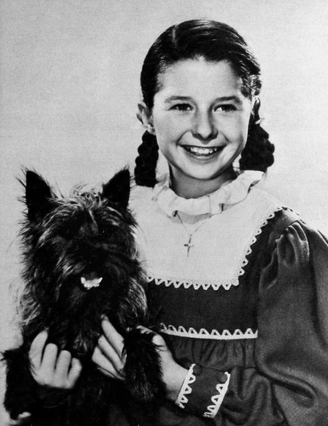 American actress Virginia Weidler (1927-1968) with Toto in a studio promotional image for Christmas 1939, from Modern Screen, January 1940